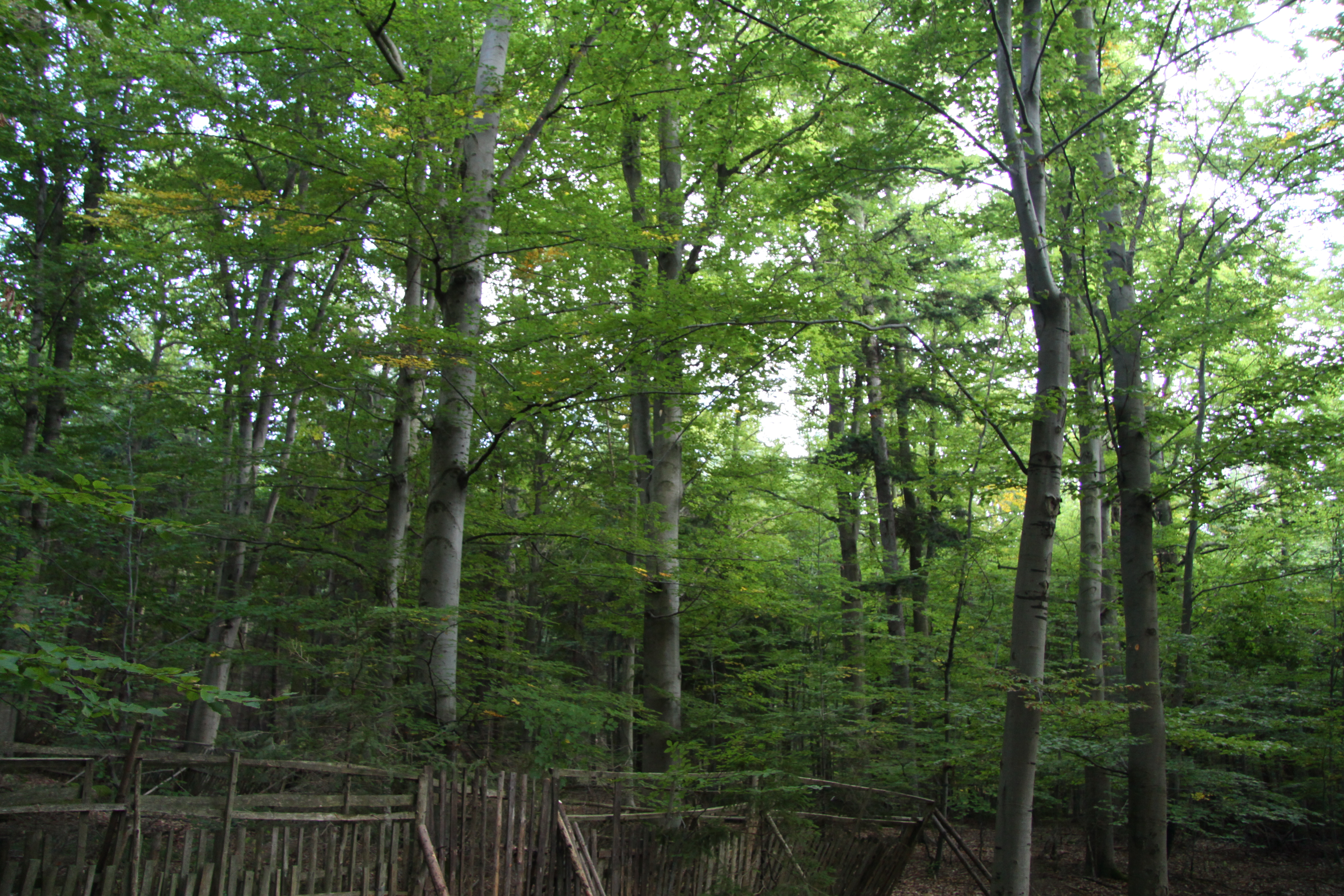 Natural monument Sobědražský prales in Písek District, Czech Republic.